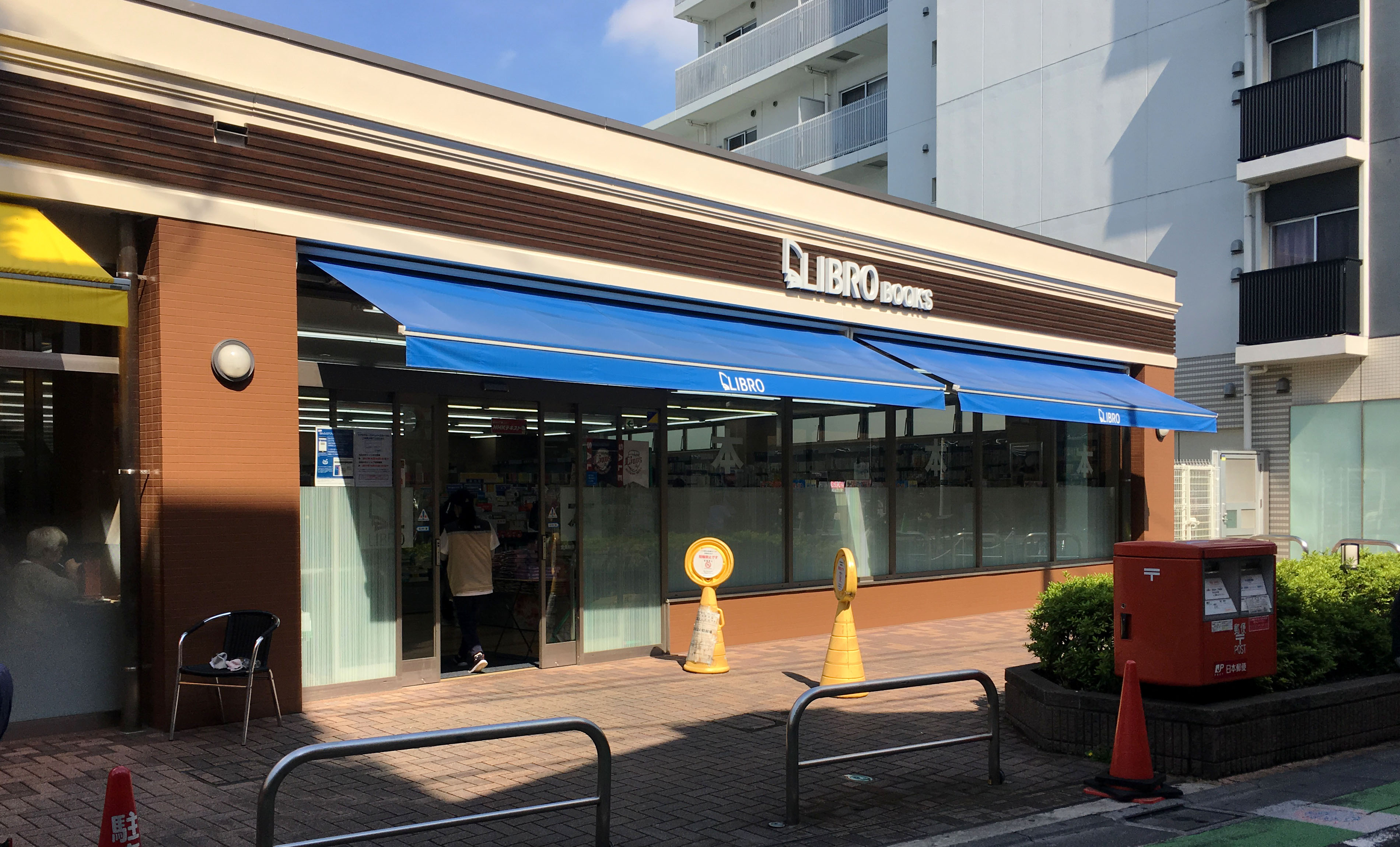 LIBRO (Japanese bookshop) Emio-Fujimidai branch (Tokyo, Japan)